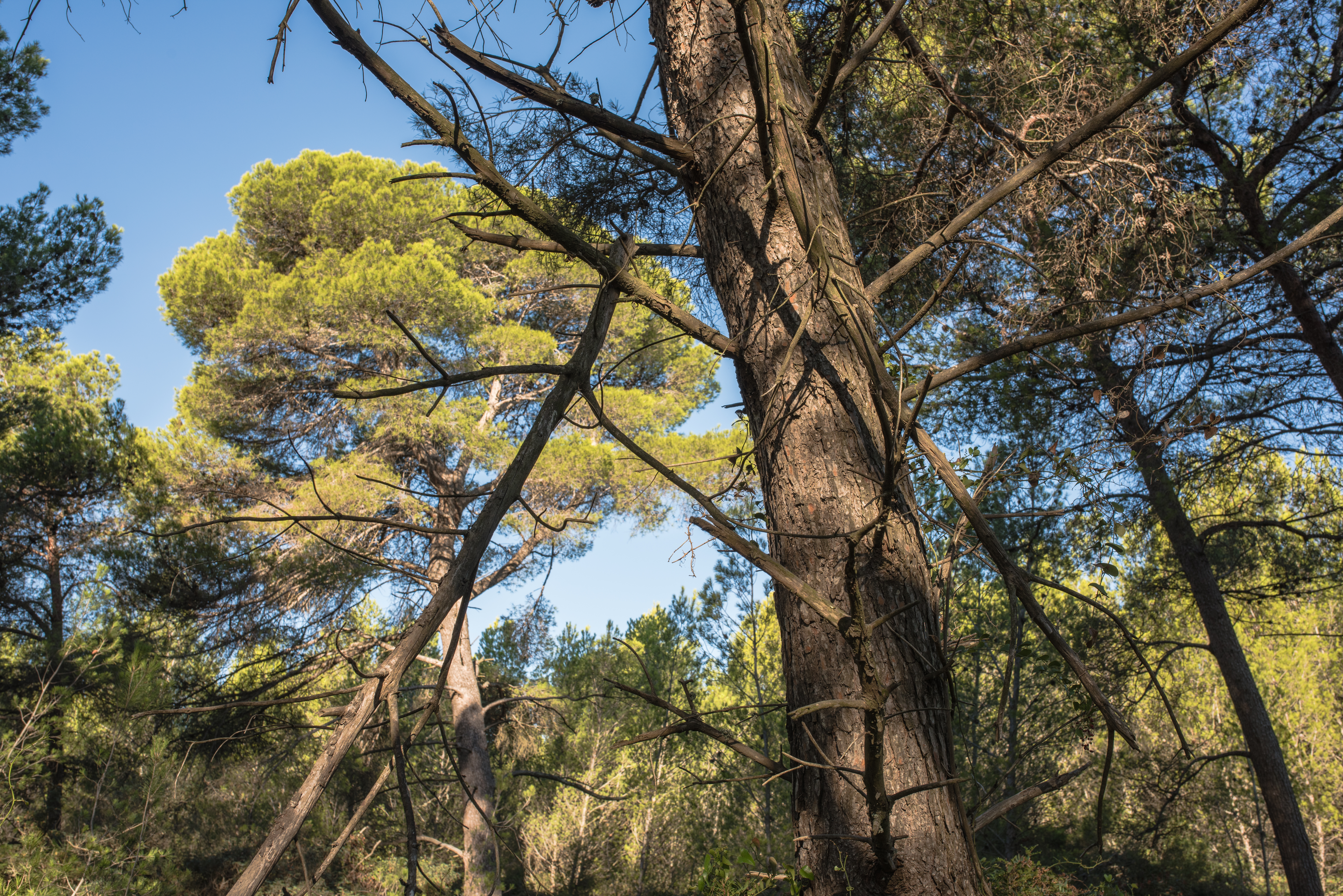 The trunc on a Pinus halepensis (Aleppo Pine) in the Bois des Aresquiers (Aresquiers Wood).